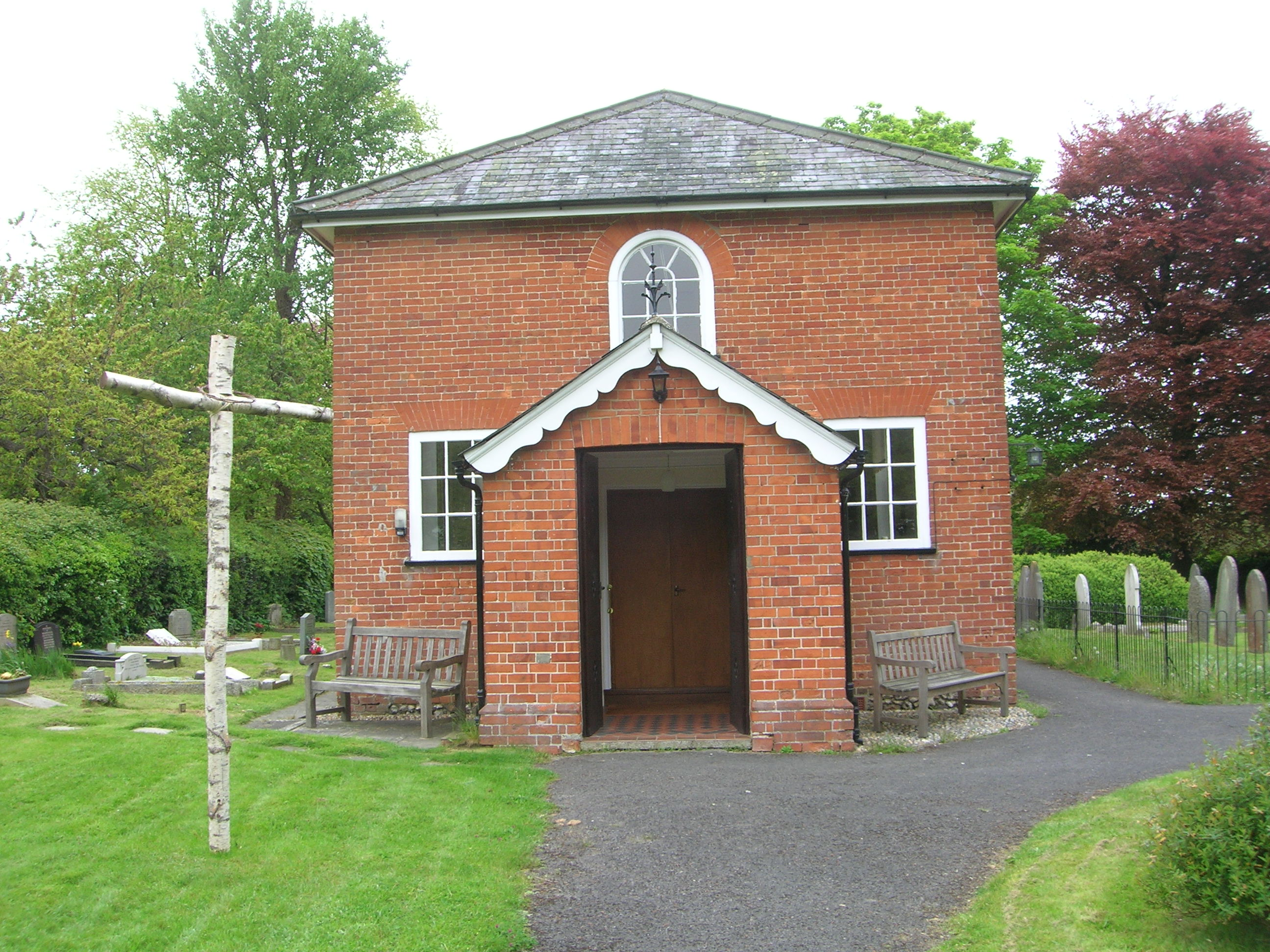 Independent chapel and graveyard, Stoke Row, Oxfordshire, seen from south-southwest